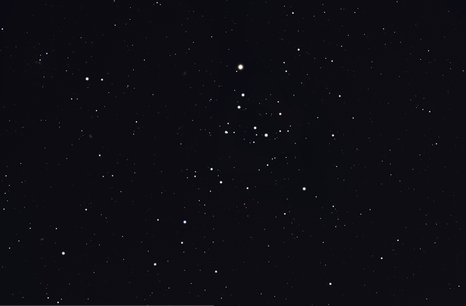 Coma open cluster (taken from Stellarium)